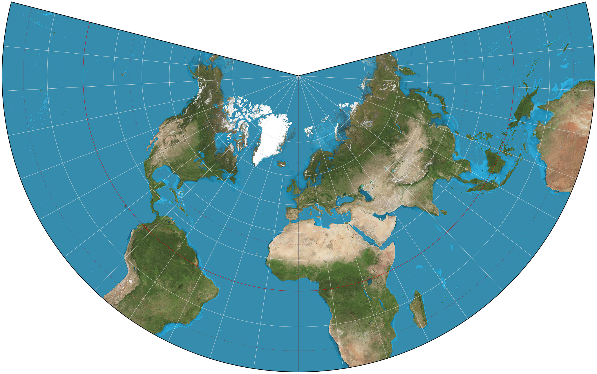 The world on Lambert conformal conic projection. 15° graticule, standard parallels at 20°N and 50°N. Imagery is a derivative of NASA’s Blue Marble summer month composite with oceans lightened to enhance legibility and contrast. Image created with the Geocart map projection software.